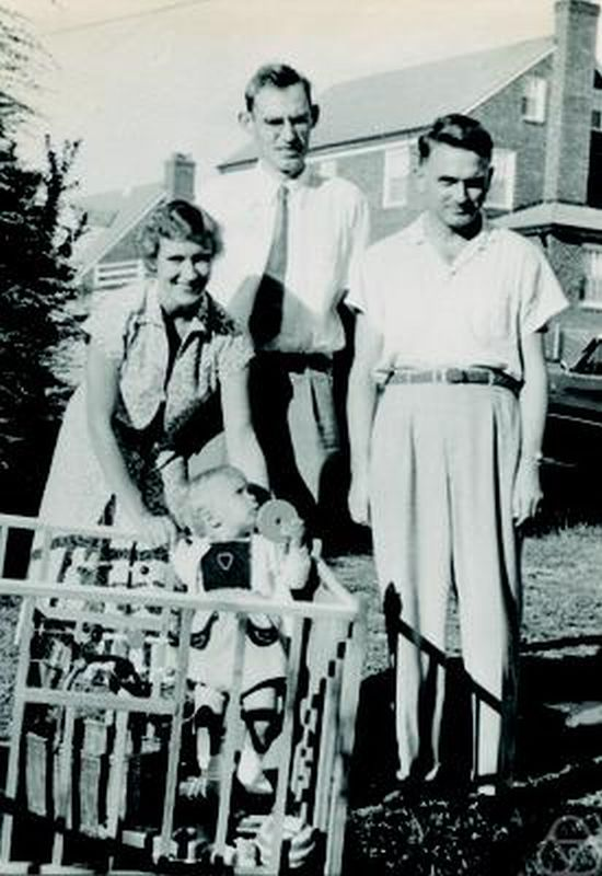 Peter Henrici (middle), Washington D. C. 1953